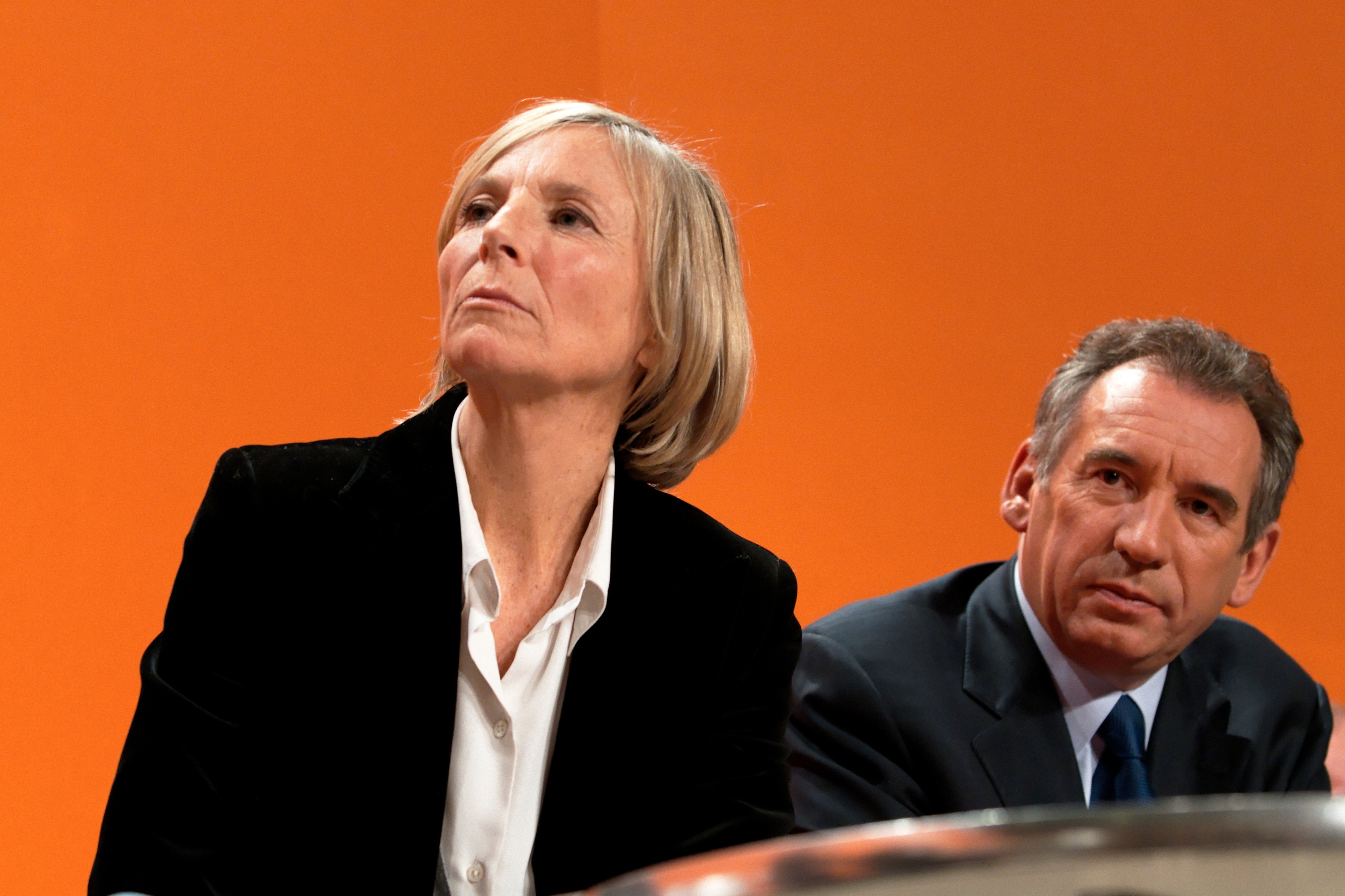 Marielle de Sarnez and François Bayrou. Political rally on March 5, 2008 at the Mutualité (Paris) for Marielle de Sarnez's campaign in the 2008 Paris town elections.